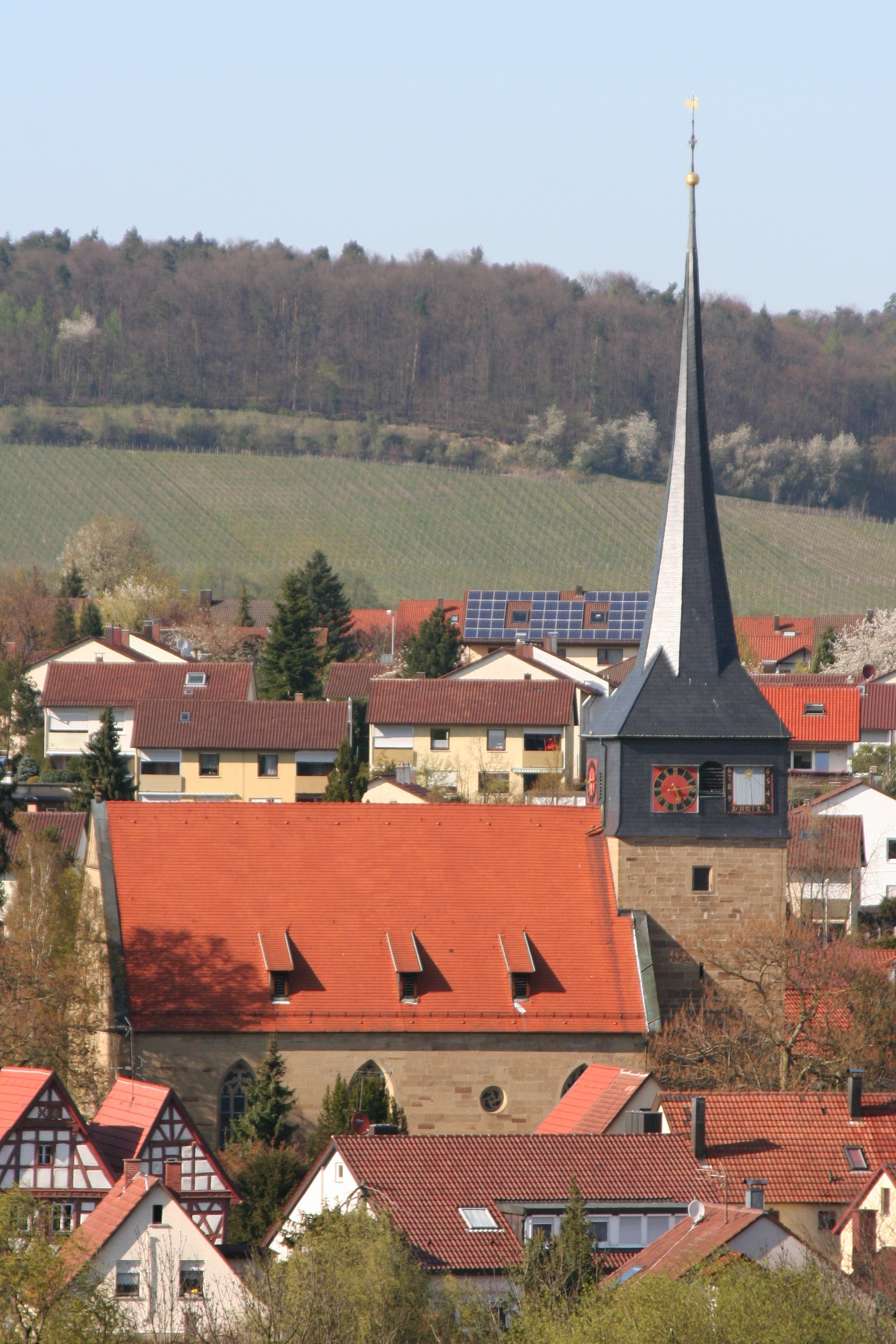 The protestant Kilian church in Obersulm-Sülzbach from the South